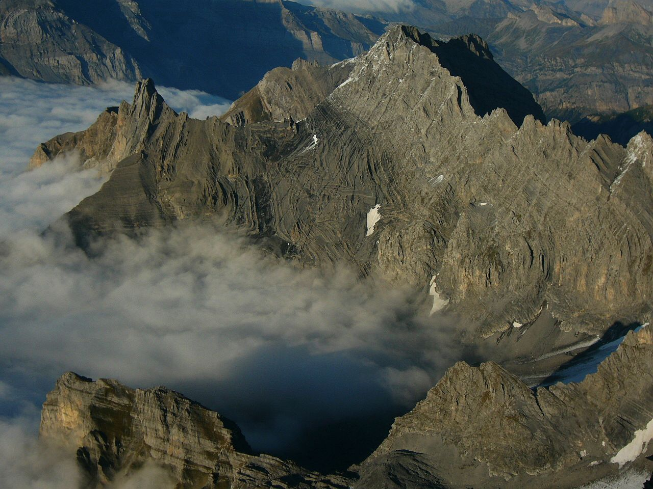 Tête à Pierre Grept (west side) from the air.